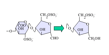 Reduction fig